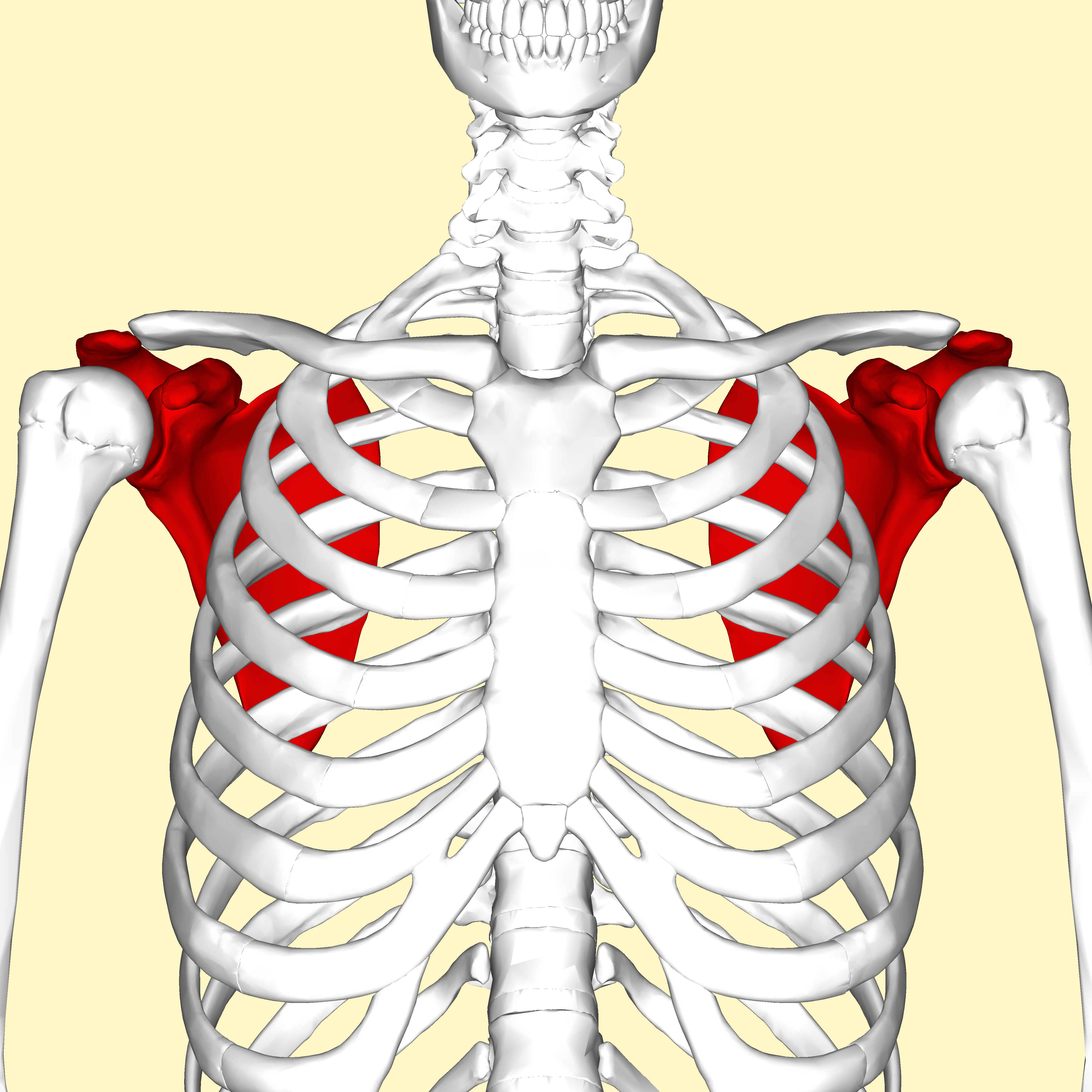 Scapula (shown in red).